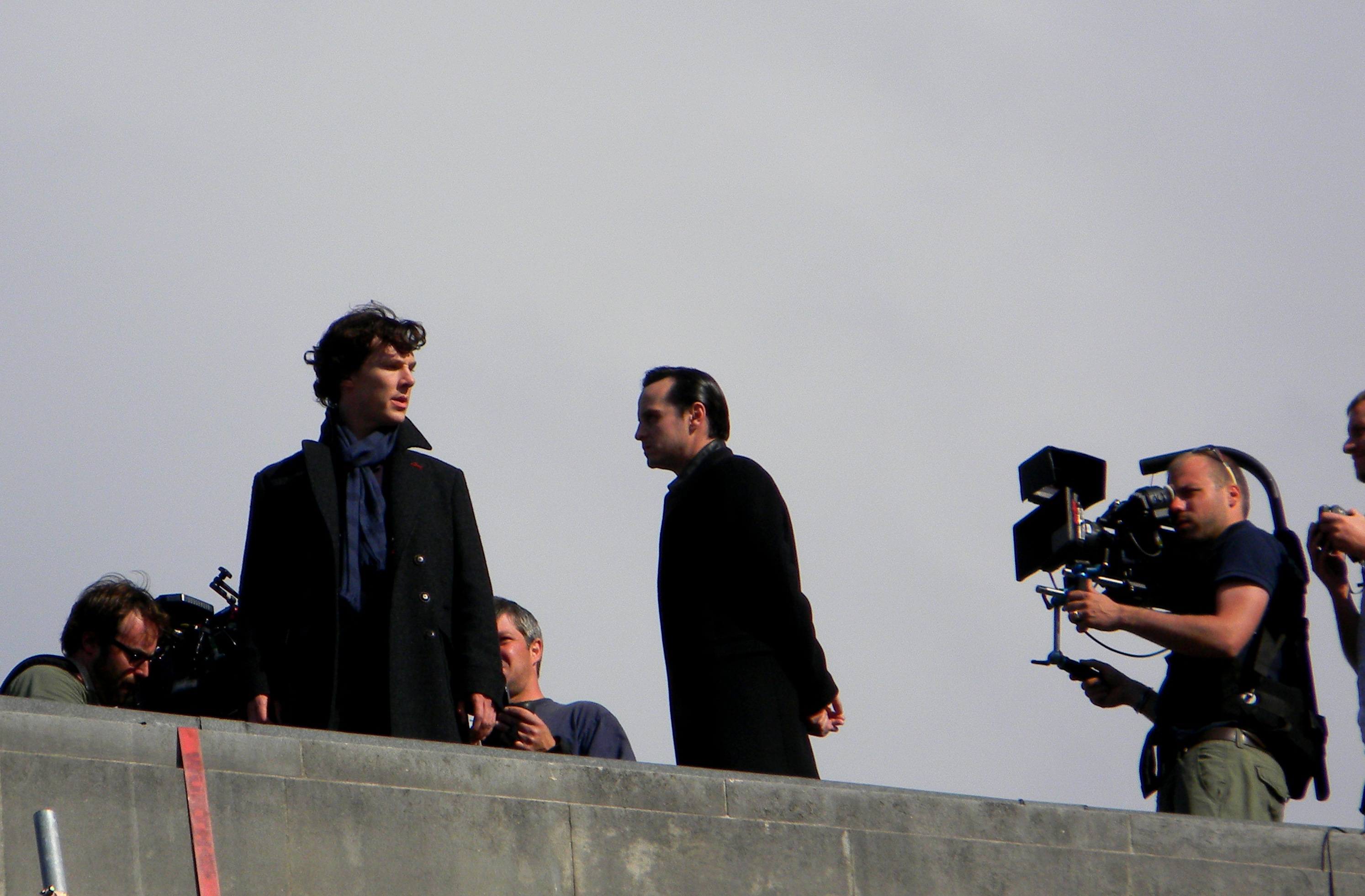 Filming the second series of "Sherlock", "The Reichenbach Fall" episode.